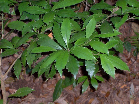 Polyosma cunninghamii at_Mount_Banda_Banda